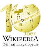 Logo ten years of lb.wikipedia